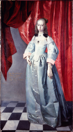 Elisabeth Sofie Gyldenløve was the daughter of King Christian IV of Denmark and one of his mistresses, Vibeke Kruse. She was his youngest child. She had one full brother, Ulrik Christian Gyldenløve (1630–1658), who was a military commander. Elisabeth Sofie married Maj.-Gen. Claus von Ahlefeldt in June 1648 as his second wife, shortly after the deaths of the king in February and her mother at the end of April. He was 34 years old; she was 14 and a half. Her father had arranged the marriage for political reasons four years previously. They had one child together in 1650, and Elisabeth Sofie died six years later at the age of 20.